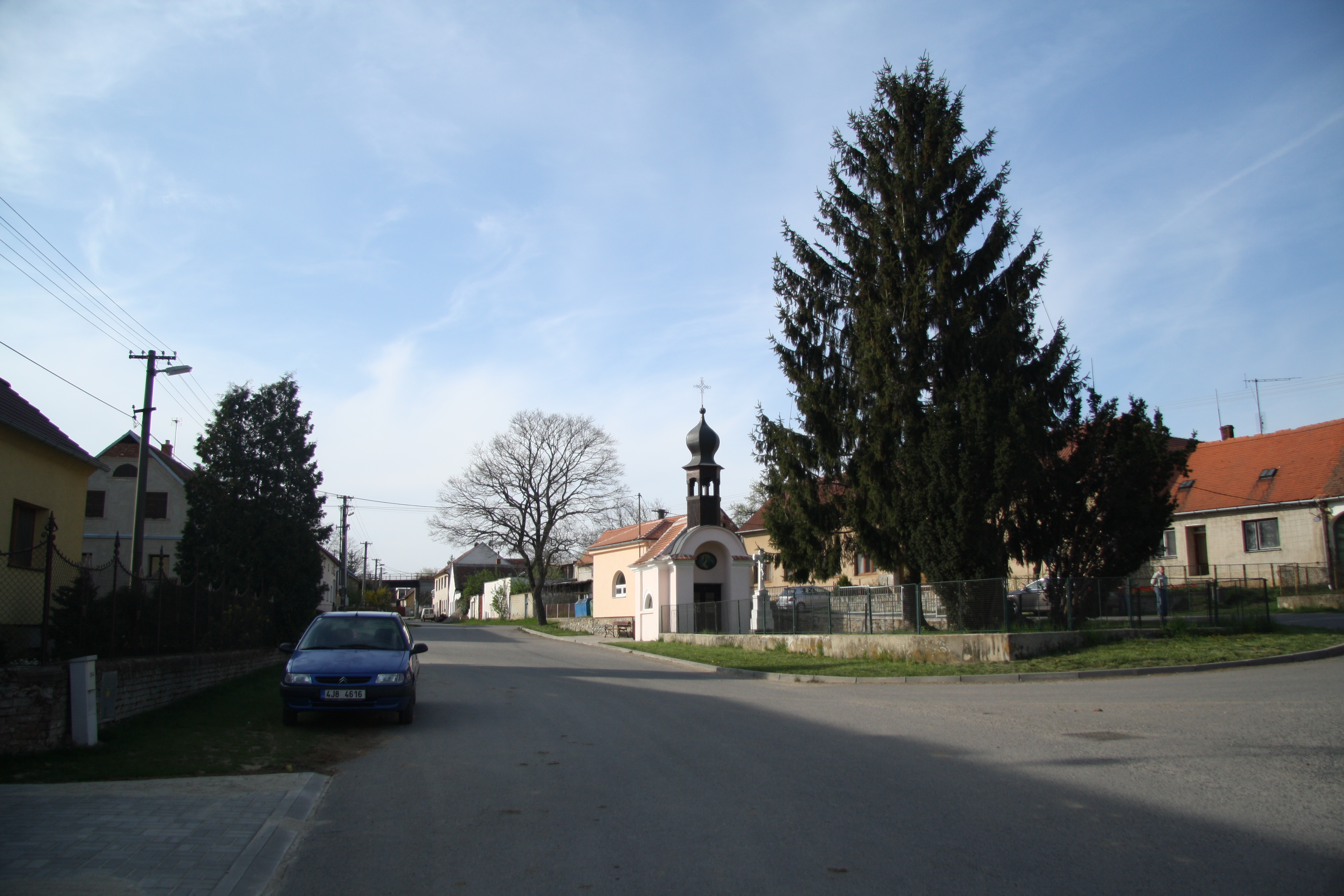 Village square with chapel of saints Cyril and Methodius in Bohušice, Třebíč District.